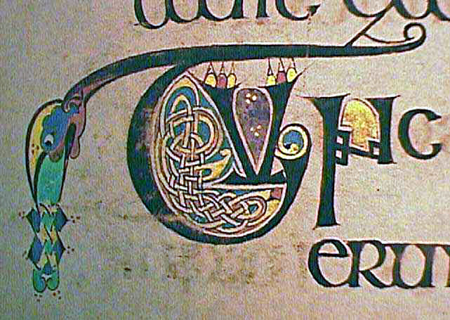 Image from the Book of Kells, a 1200 year old book. Category:Illuminated manuscript images